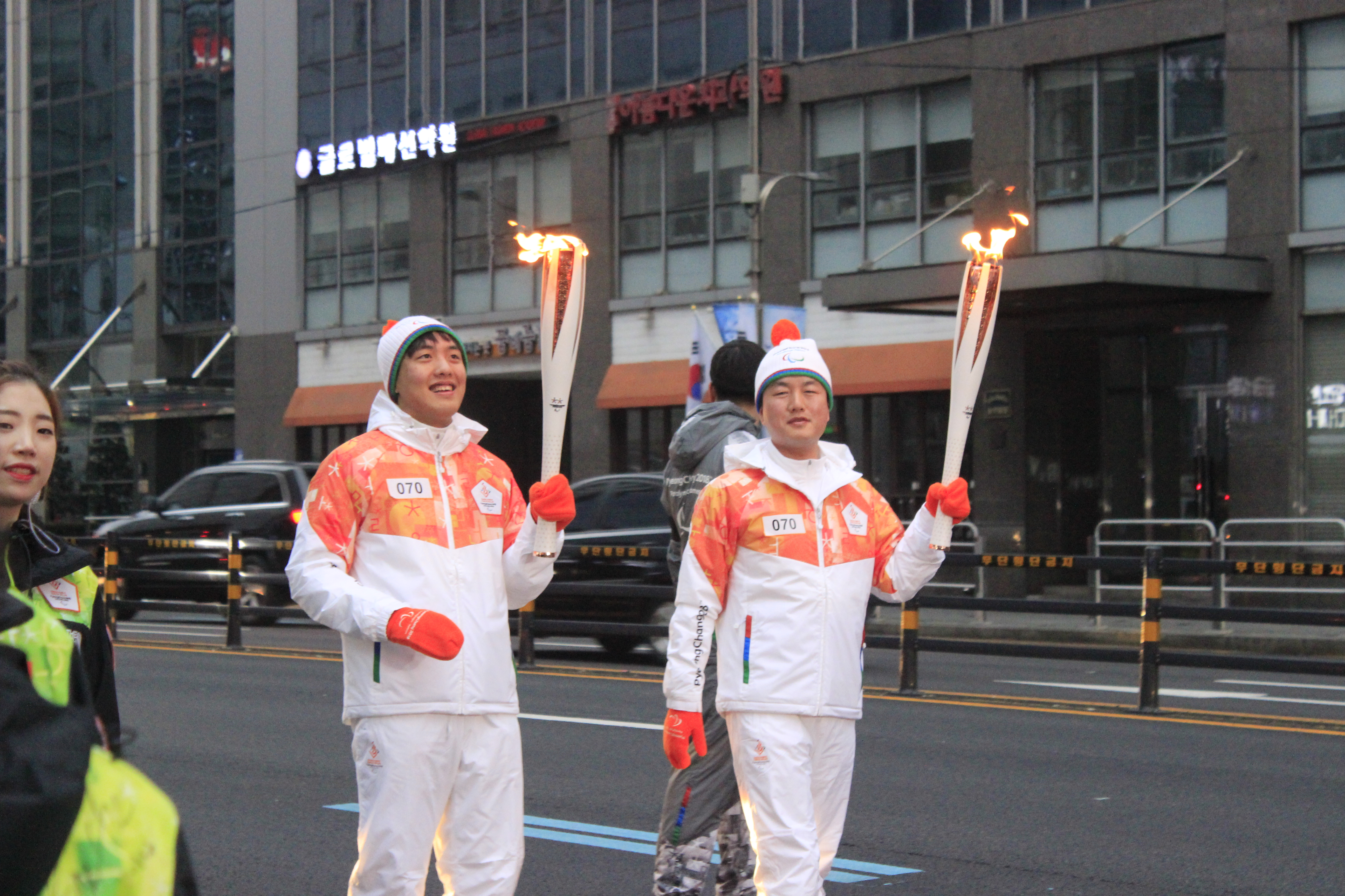 2018 Paralympics Torch Relay in Seoul